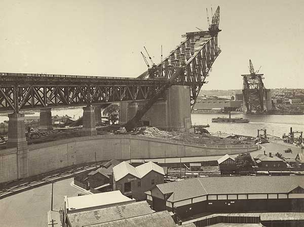 Construction of the Sydney Harbor Bridge. Courtesy State Library of New South Wales